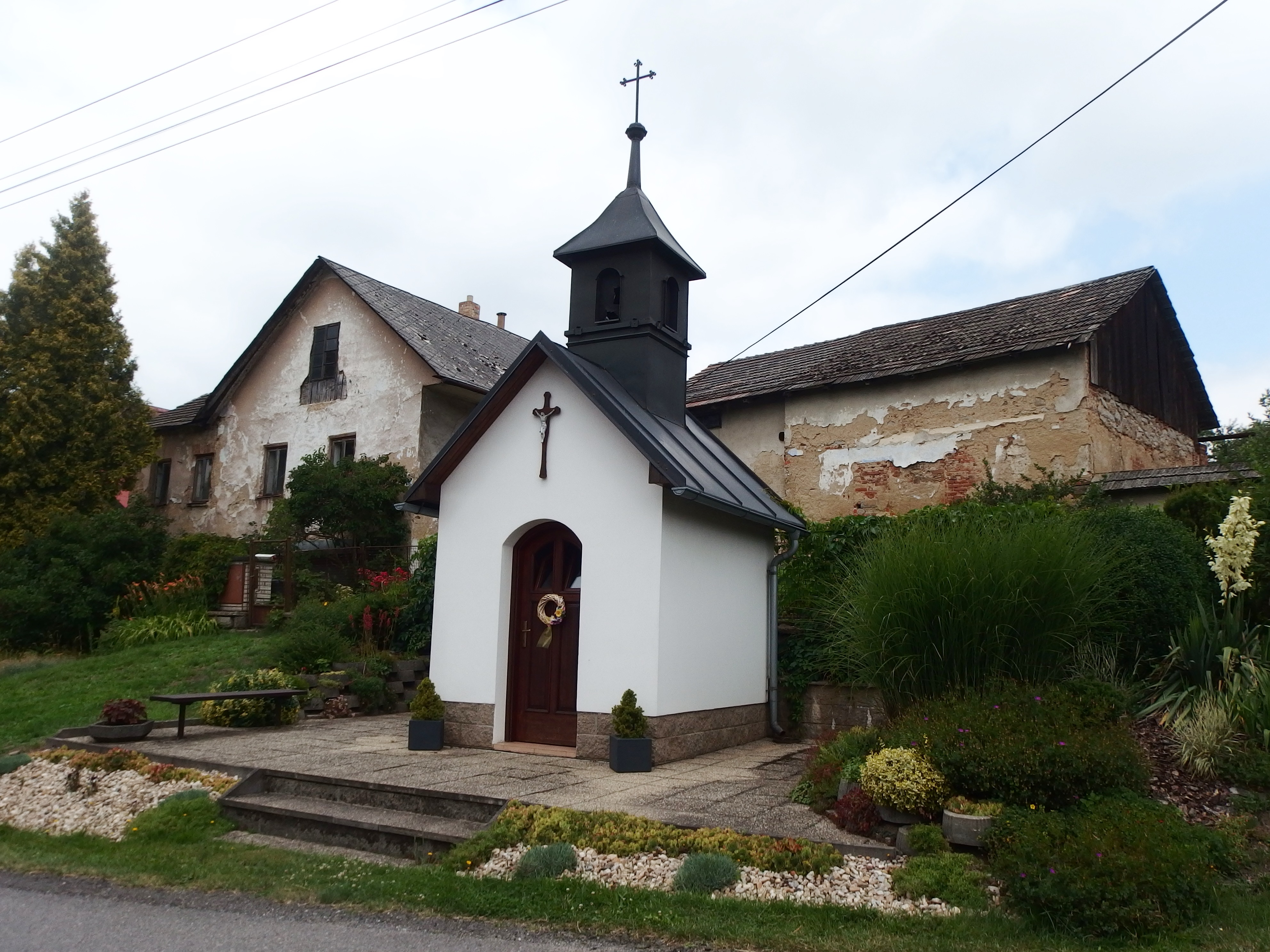 Hamry nad Sázavou, Žďár nad Sázavou District, Czechia.